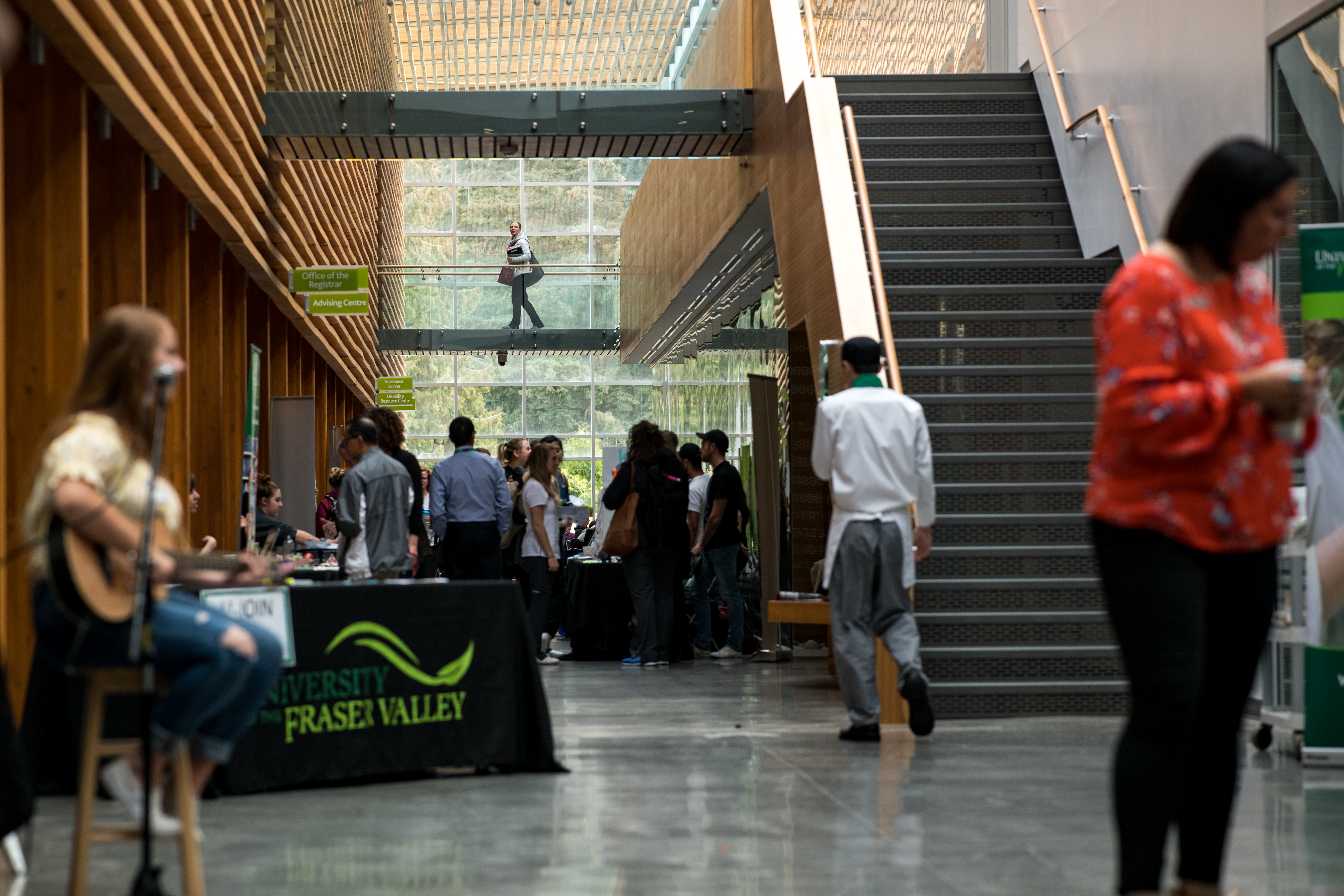 U-Join Chilliwack CEP ~ 2018-2